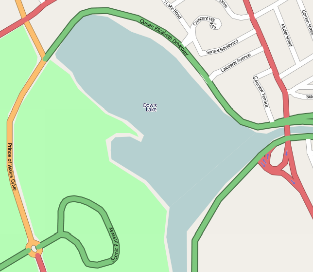 This map may be incomplete, and may contain errors. Don't rely solely on it for navigation.